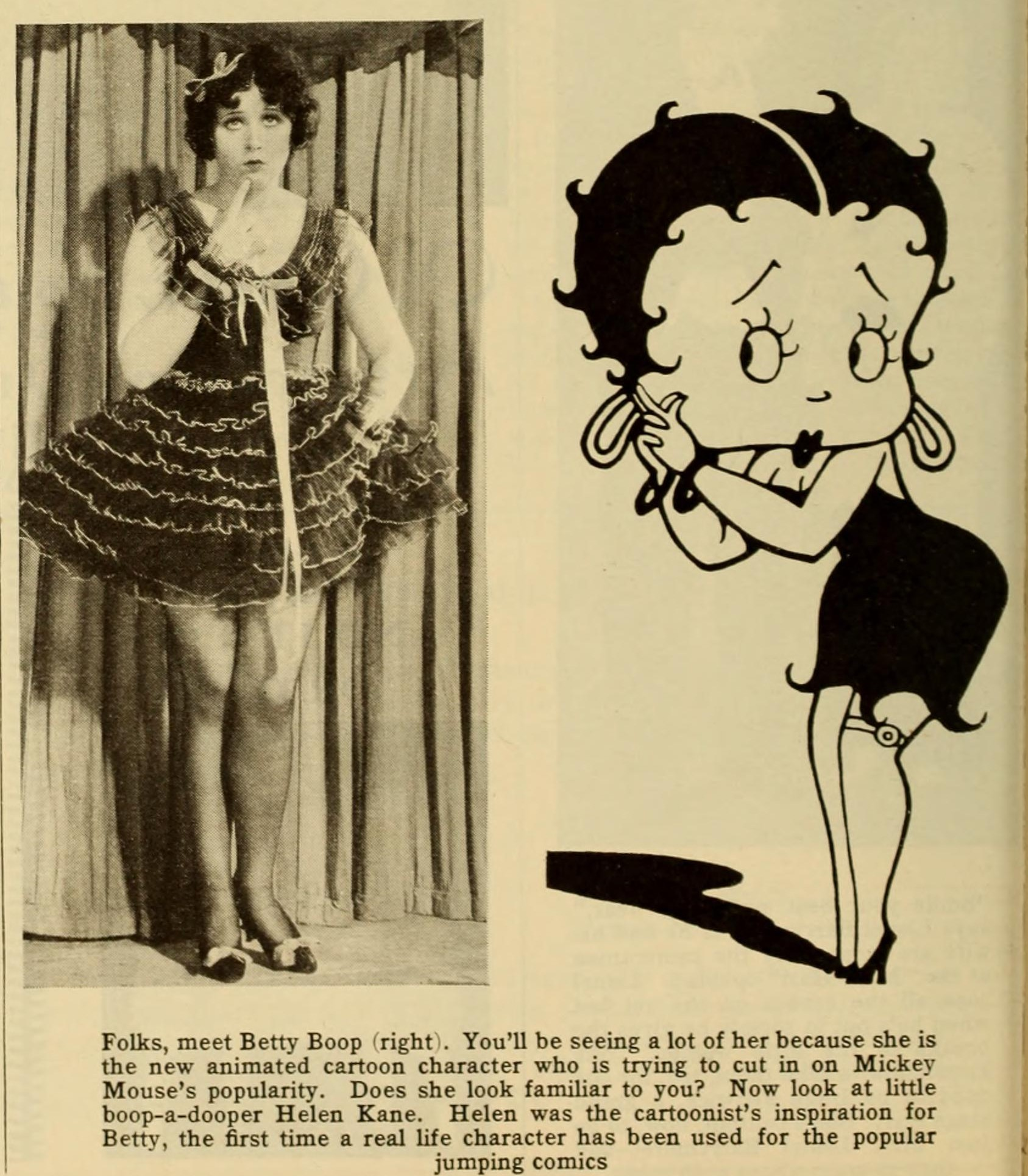 The caption claims that Betty Boop was indeed based on Helen Kane. This was published before the lawsuit in May.